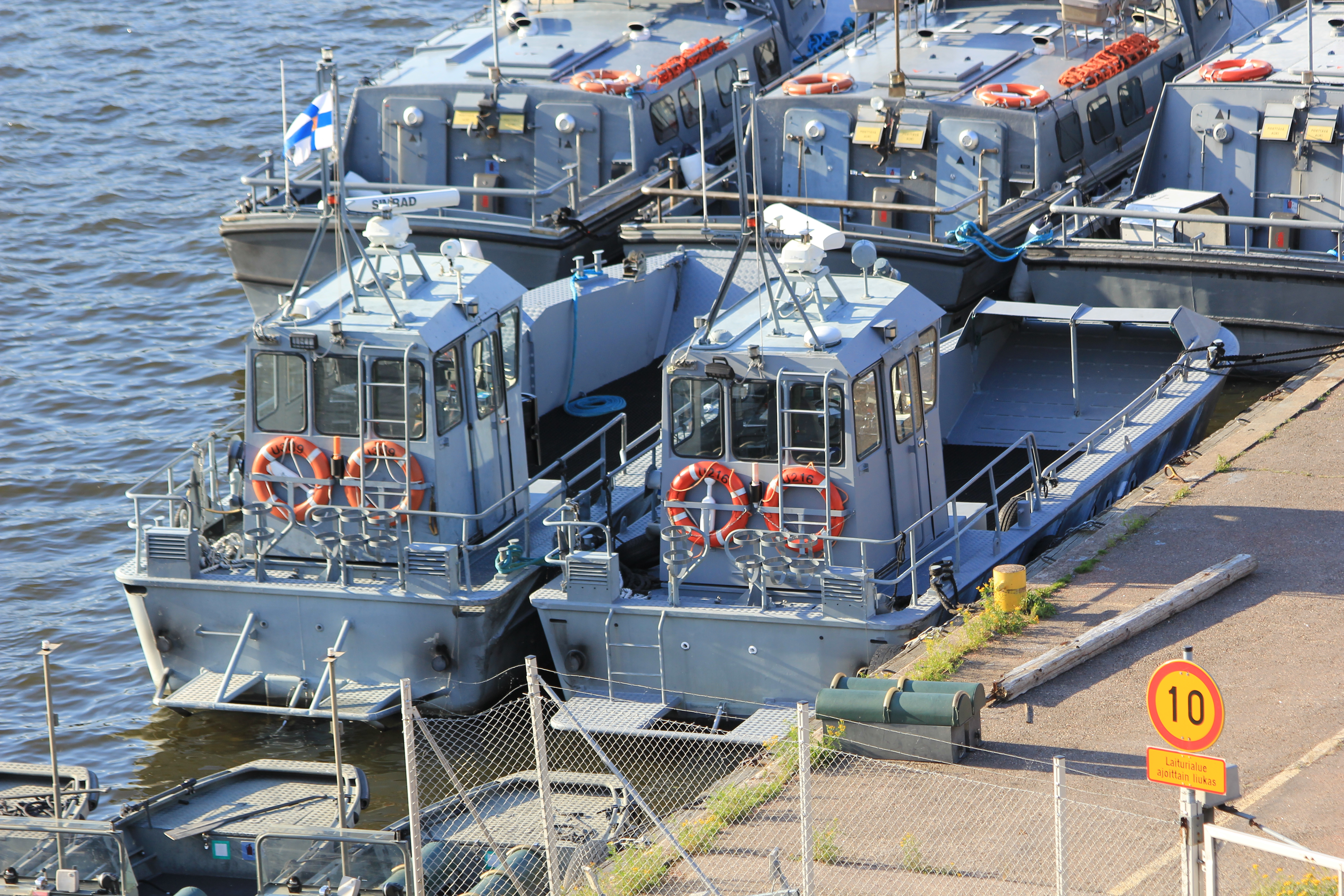 Finnish navy Uisko class landing craft U216 and U309 in Kuusinen harbour.